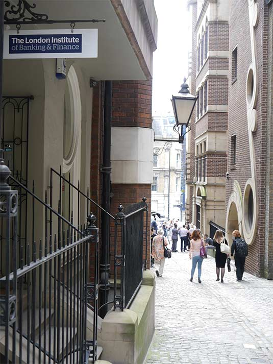 The London Institute of Banking & Finance student campus entrance at Lovat Lane